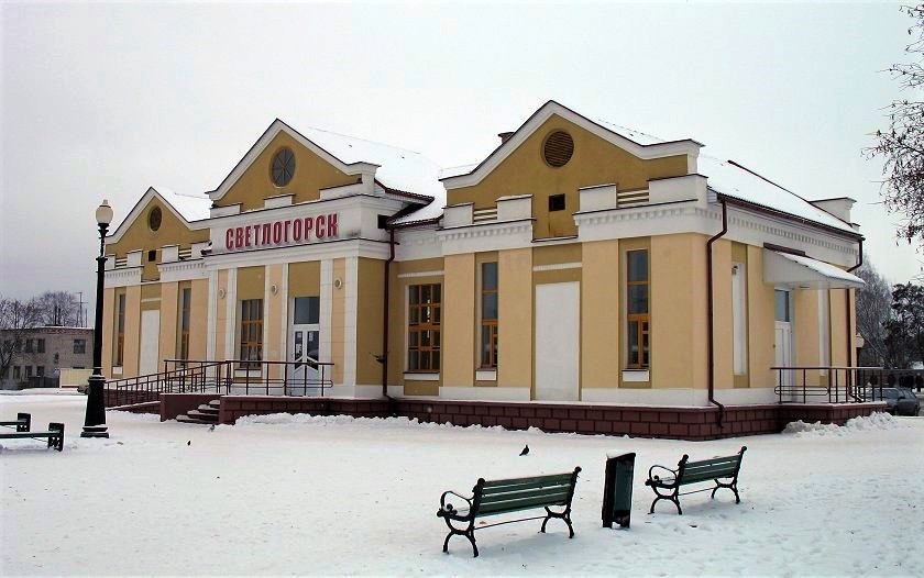 The railway station of Svetlahorsk town in the Gomel oblast (province) of Belarus.